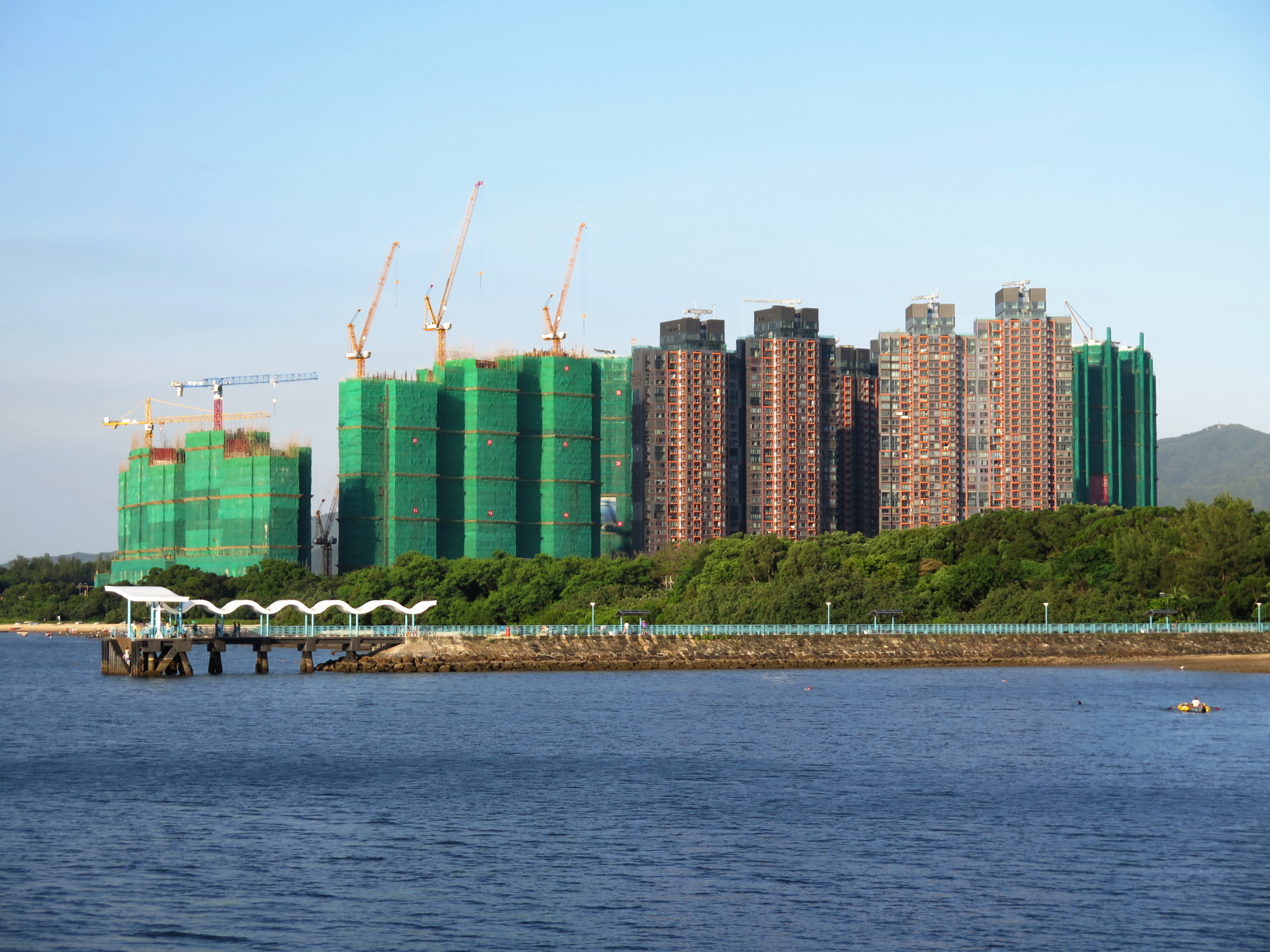 Double Cove STTL 502